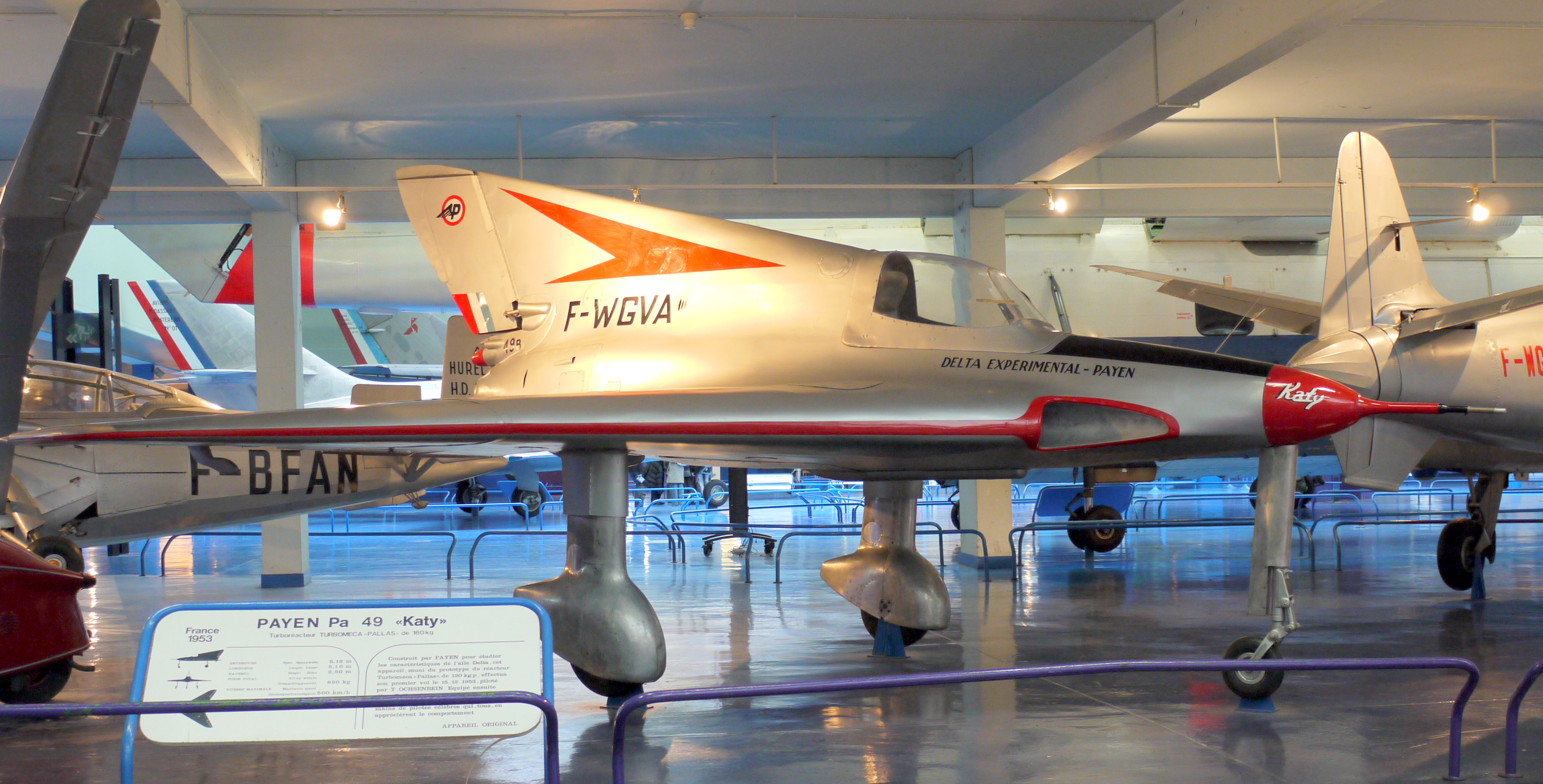 French experimental aircraft Payen PA 49 (1951), Museum of Air and Space Paris, Le Bourget (France)